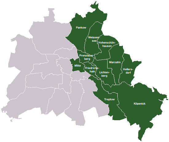 East Berlin (former Soviet zone) with district names